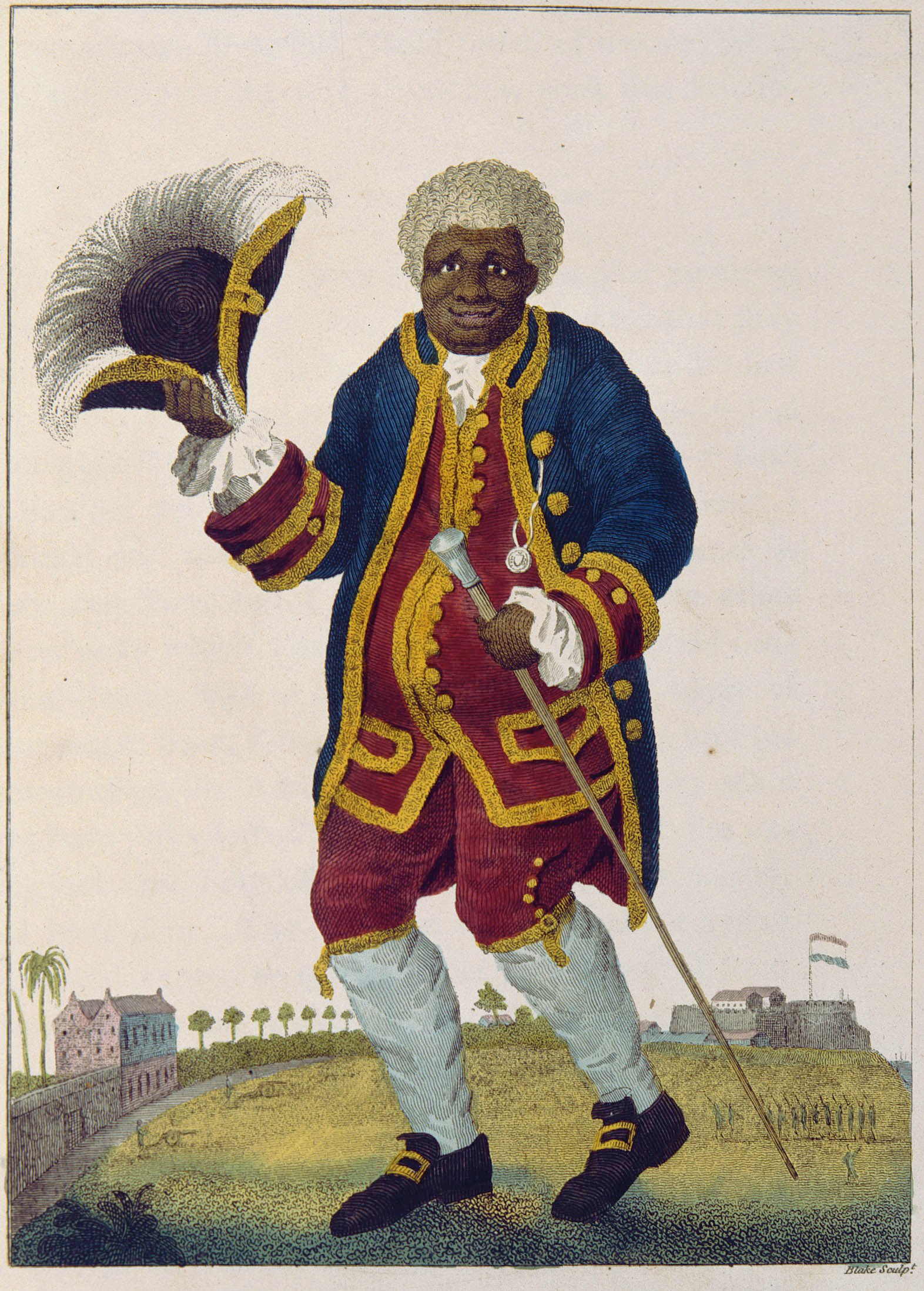 Blake after John Gabriel Stedman Narrative of a Five Years copy 2 object 15-detail: "The celebrated Graman Quacy"